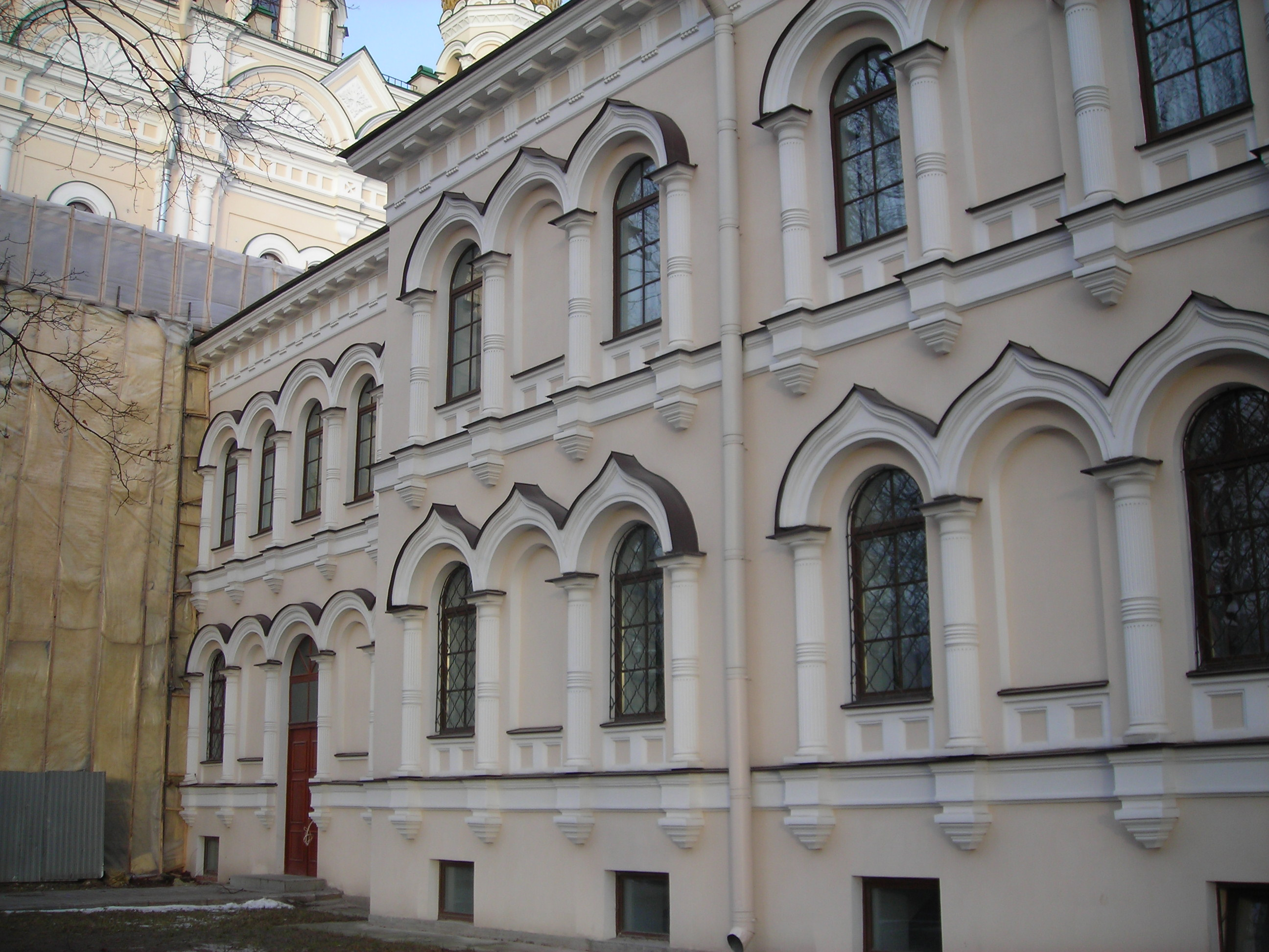 Saint Petersburg (Russia), Moskovsky Avenue.